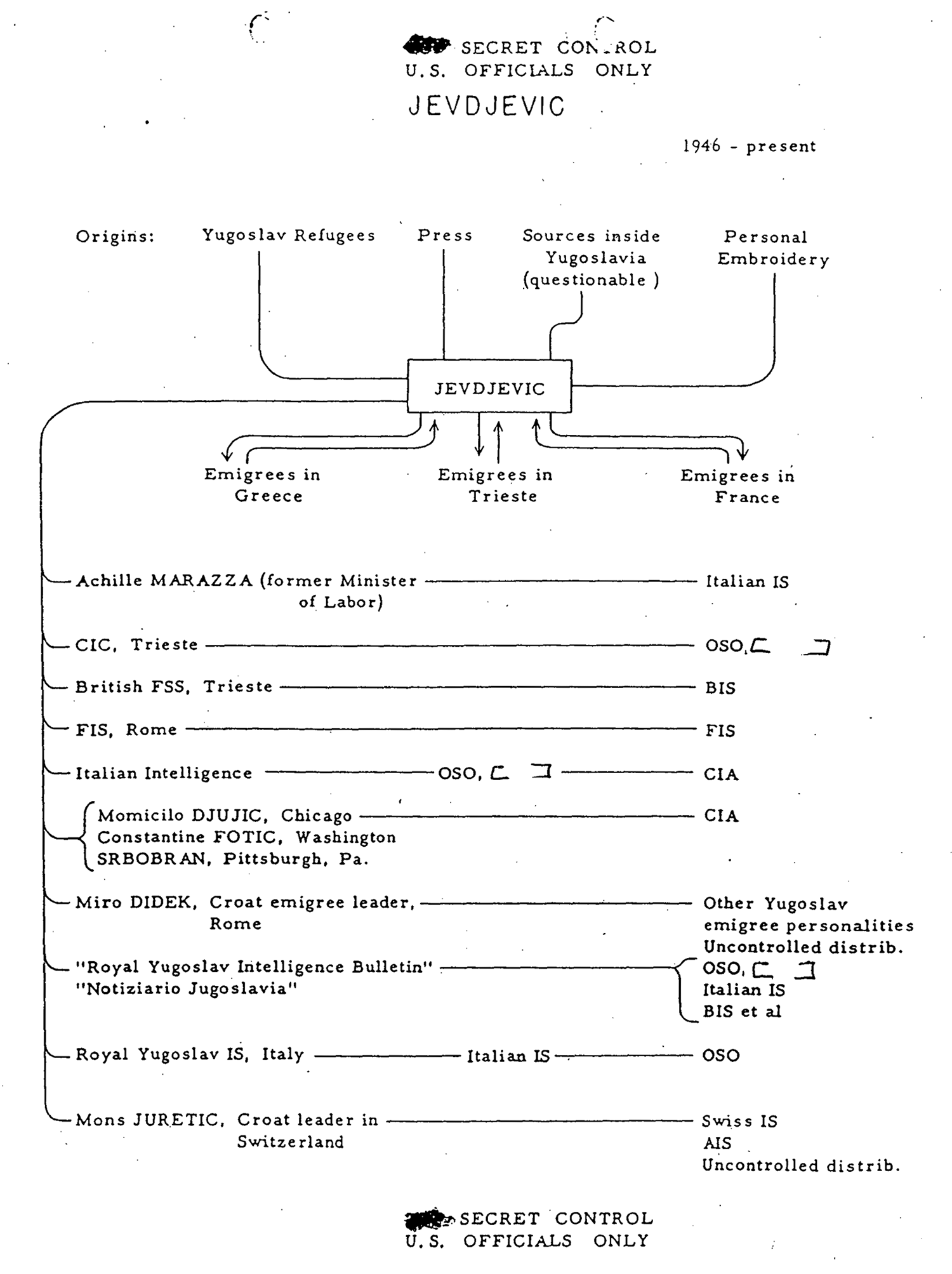 CIA chart illustrating the flow of Dobroslav Jevđević's intelligence.